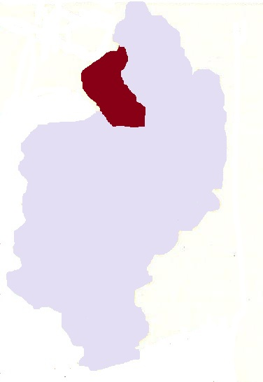 Putao Township roughly highlighted in Kachin State, Burma